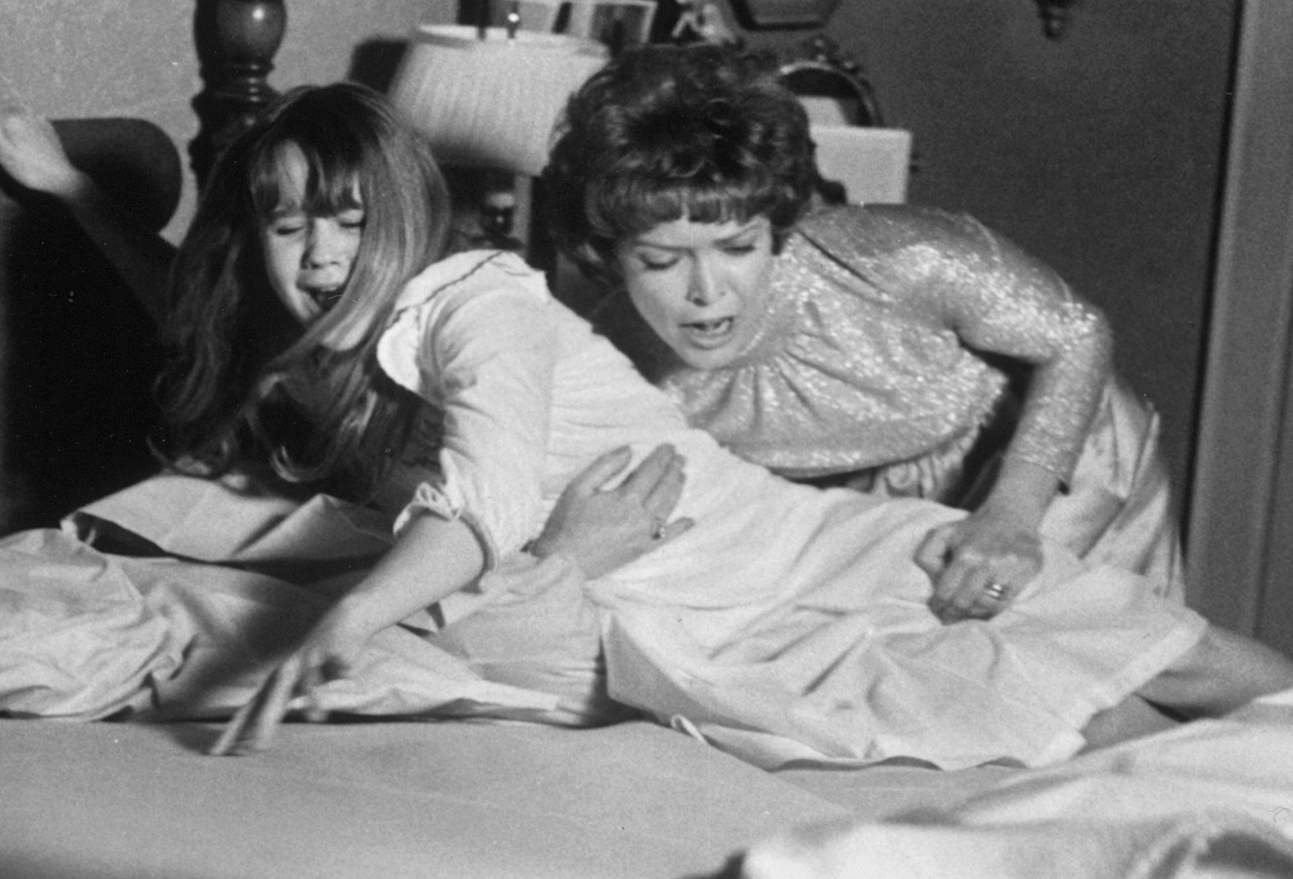 Publicity still from The Exorcist, published 1974.